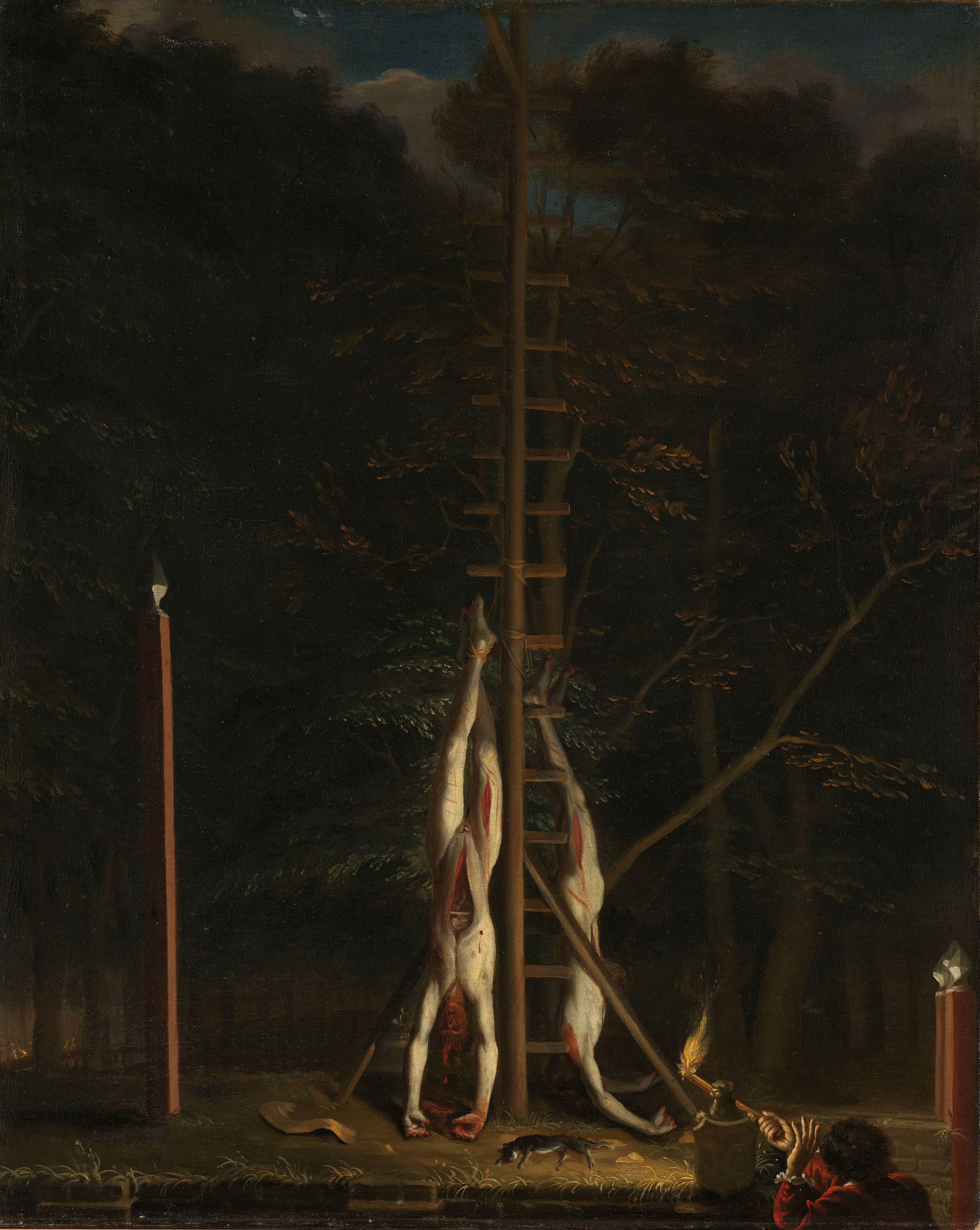 The mutilated corpses of Johan and Cornelis de Witt, hung on the stake on the Groene Zoodje in The Hague, 20 August 1682. Bottom right a man with a torch.